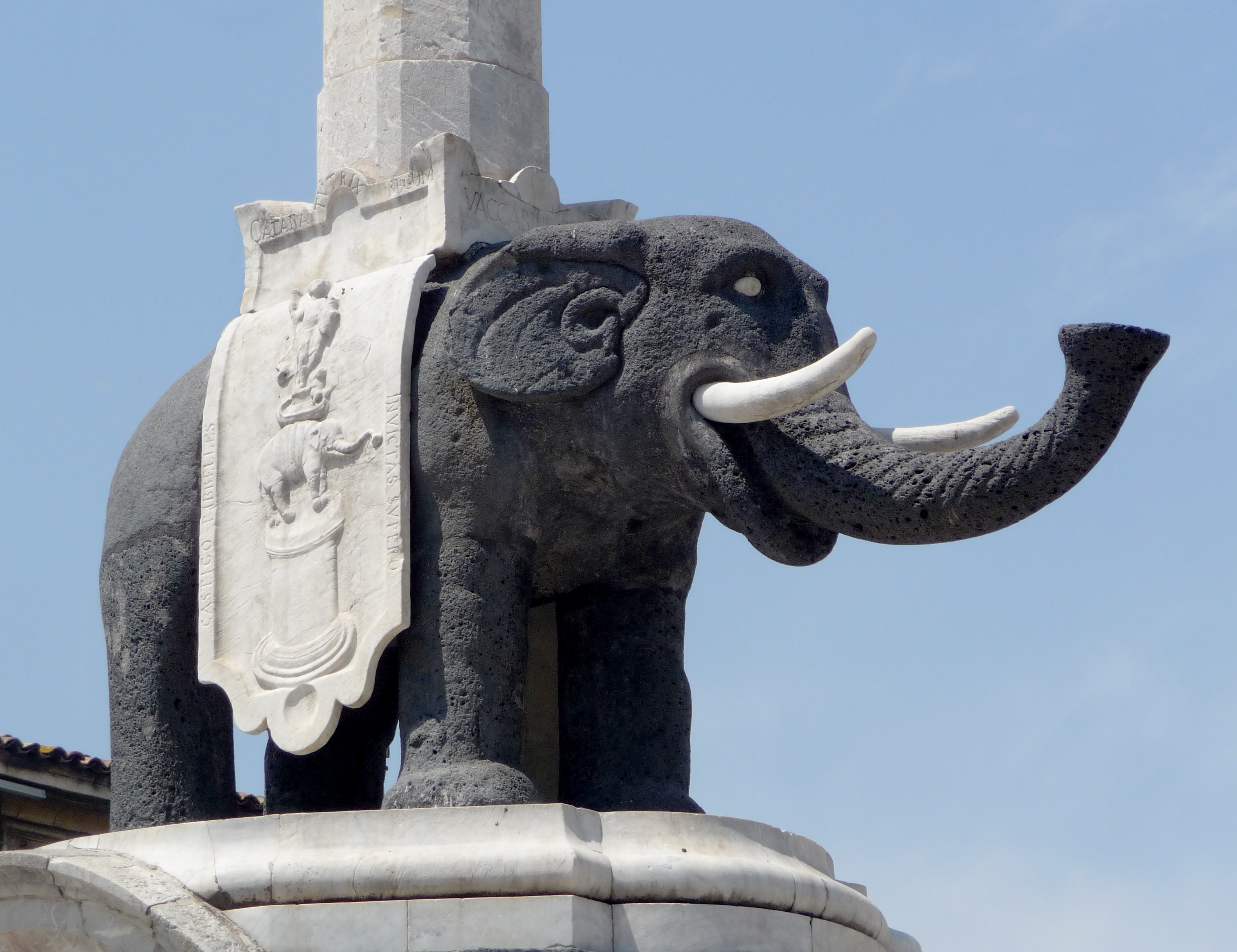 Fontana dell'Elefante (Elephant fountain), Catania, Sicily, Italy - Detail